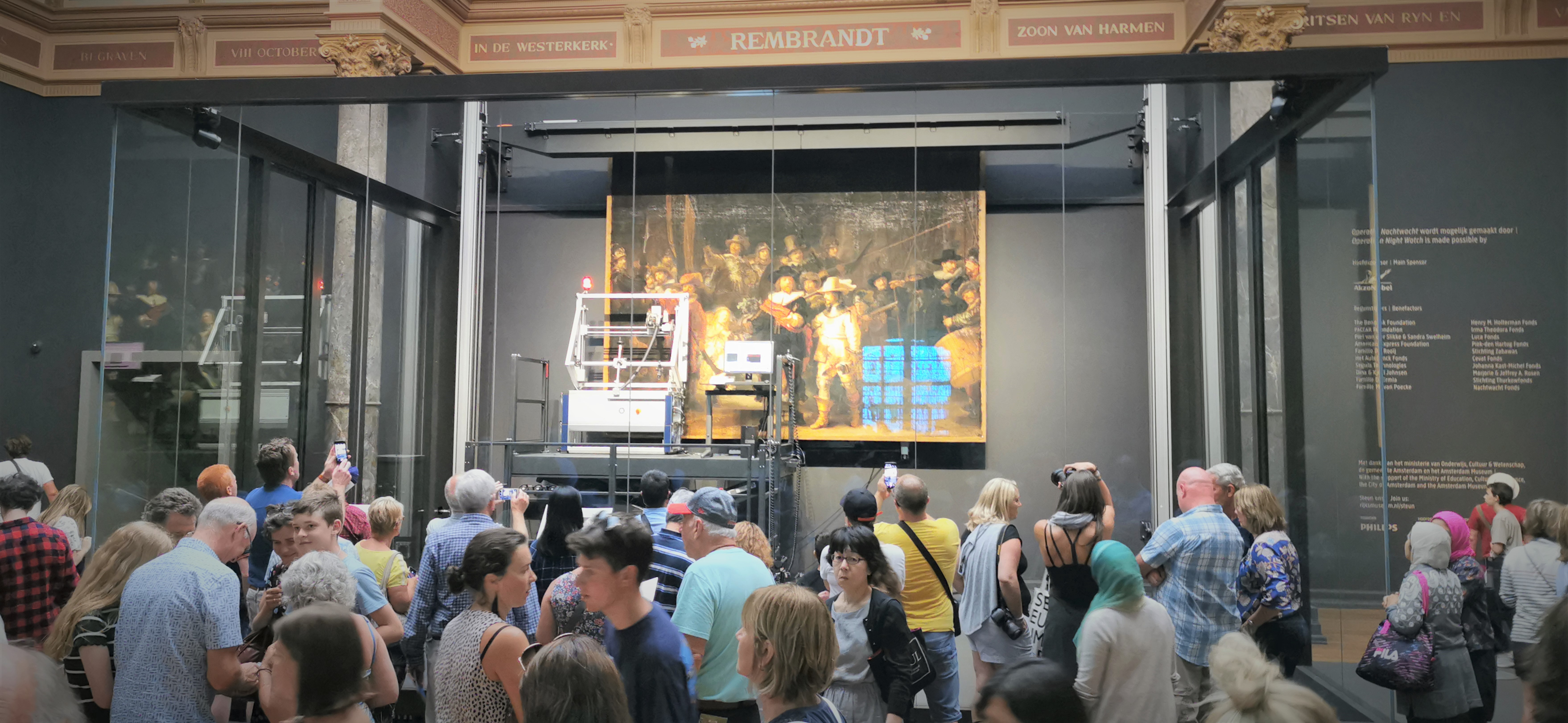 Night Watch - restauration. On the 29th of July, 2019. Rijksmuseum, Amsterdam, The Netherlands.